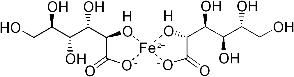 chemical structure of ferrous gluconate